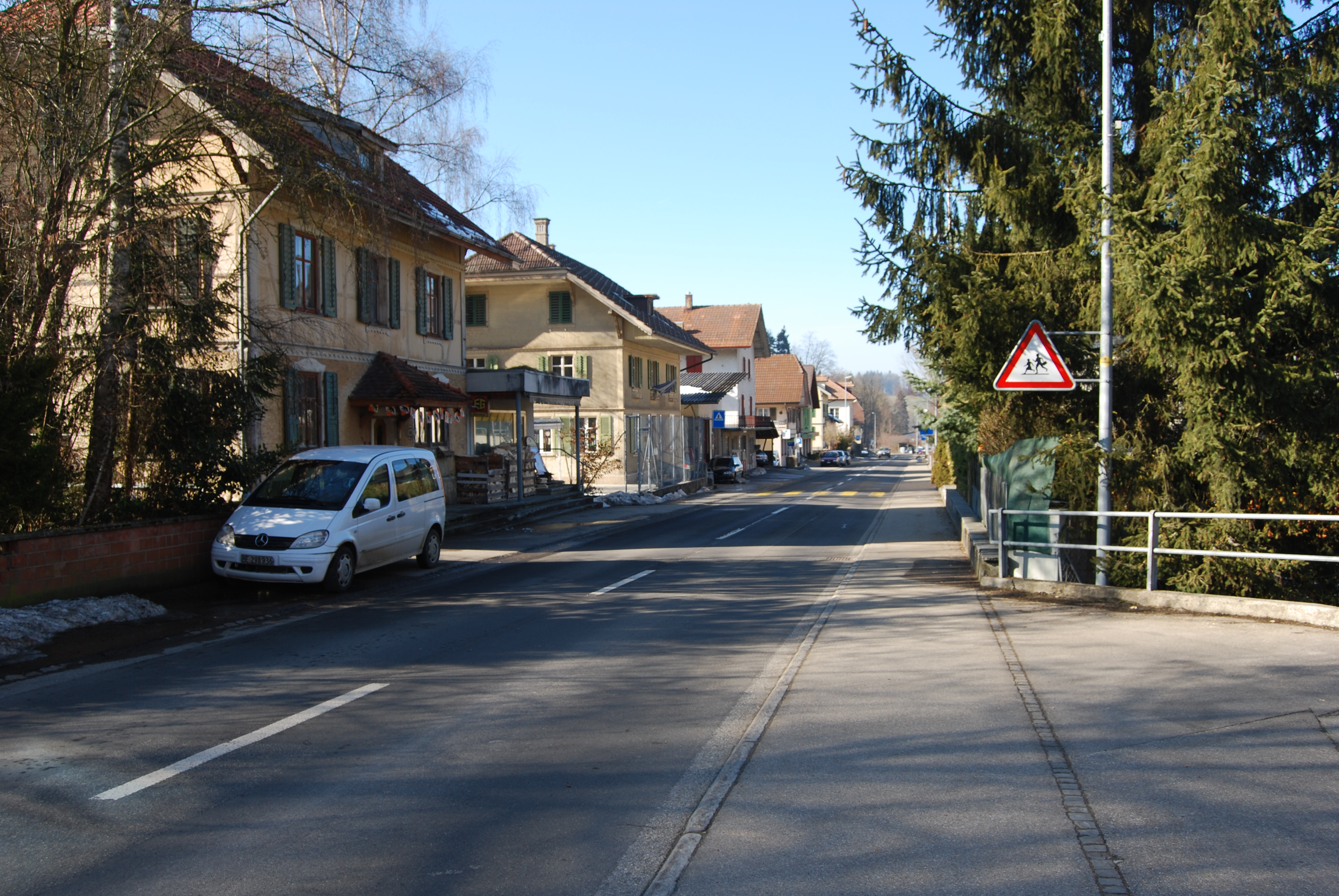 Wyssachen, canton of Bern, SwitzerlandEsperanto: Wyssachen, Kantono Berno, Svislando